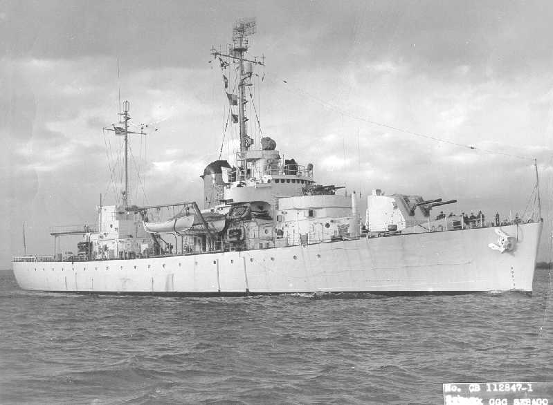 USCG Sebago (WPG-42, later WHEC-42) as seen on 28 November 1947. Her World War II armament with twin 5"/38 caliber gun turrets is still apparent here.